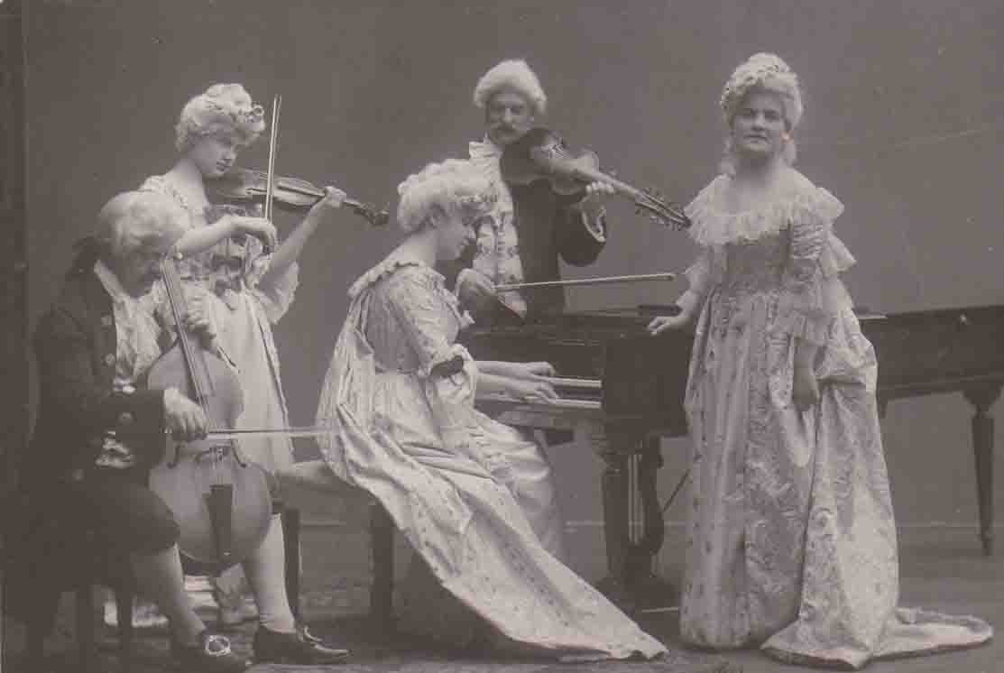 The "Deutsche Vereinigung für alte Musik" from Munich in Rococo costumes